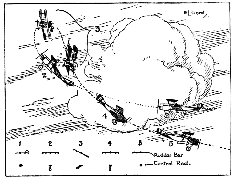 Illustration of the 1st World War "Immelmann turn" maneuver